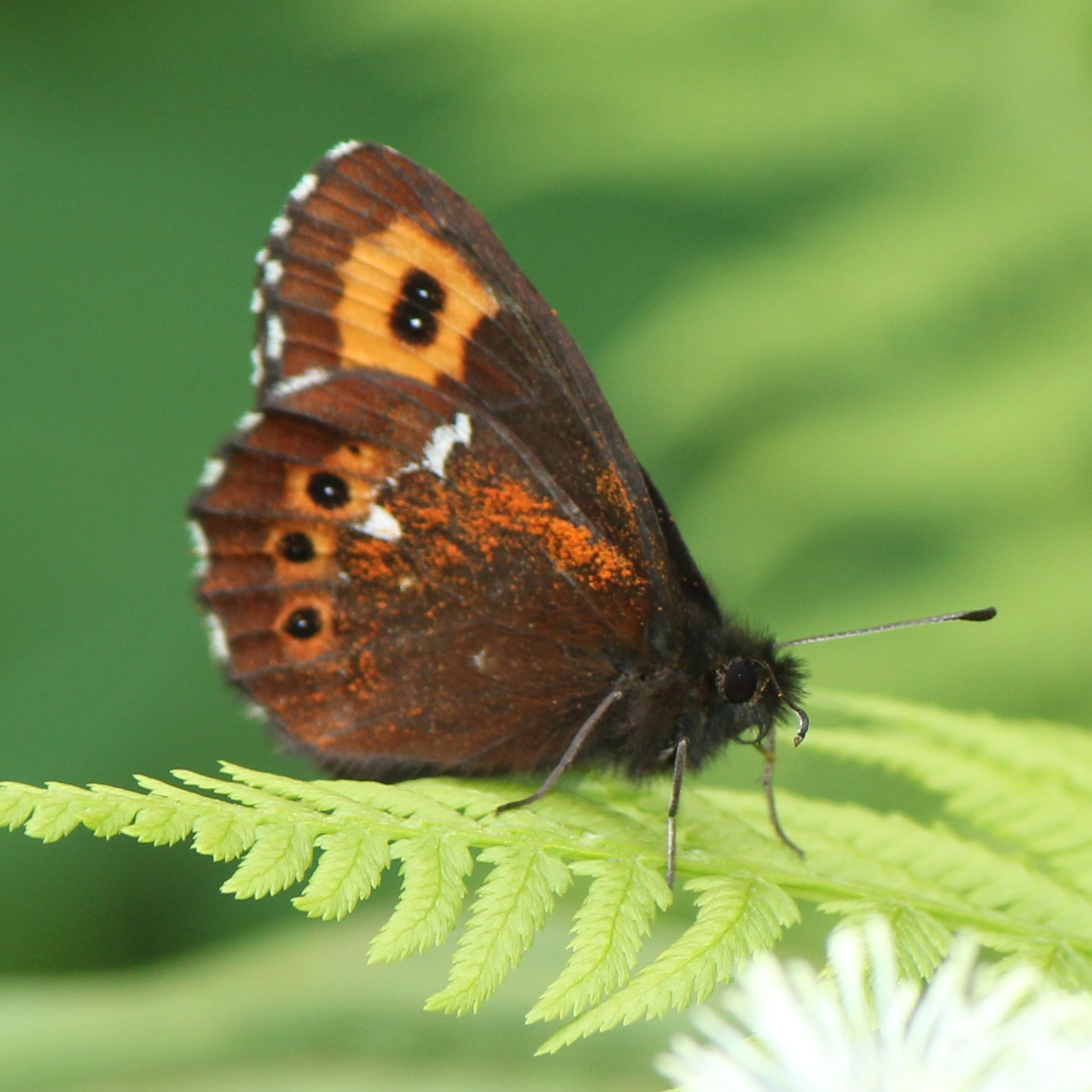 Erebia ligea takanonis, in Mount Kisokoma, Nagano pref., Japan.